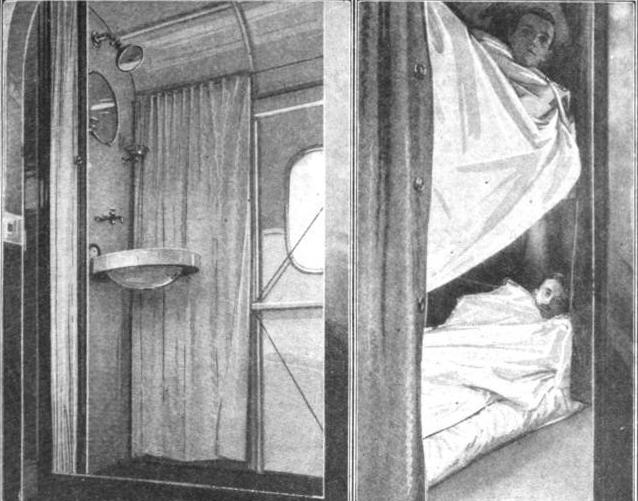 Interior shot of the Lawson L-4 air liner showing washroom facilities and sleeping berths.